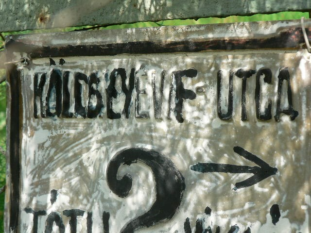 Trükkösen átfestett utcanévtábla Solymár